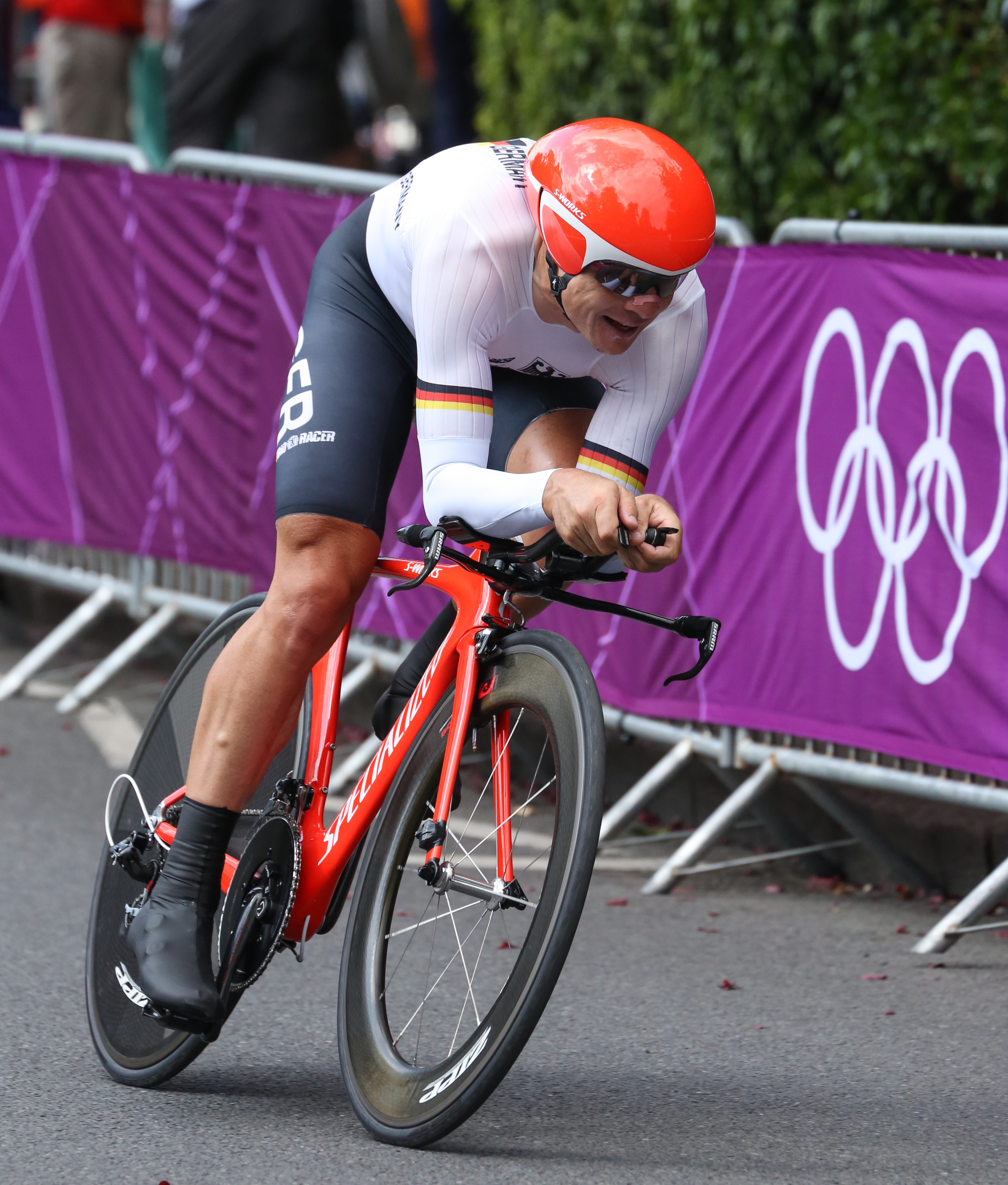 Bert Grabsch competing in the London 2012 Men's Olympic Time Trial.